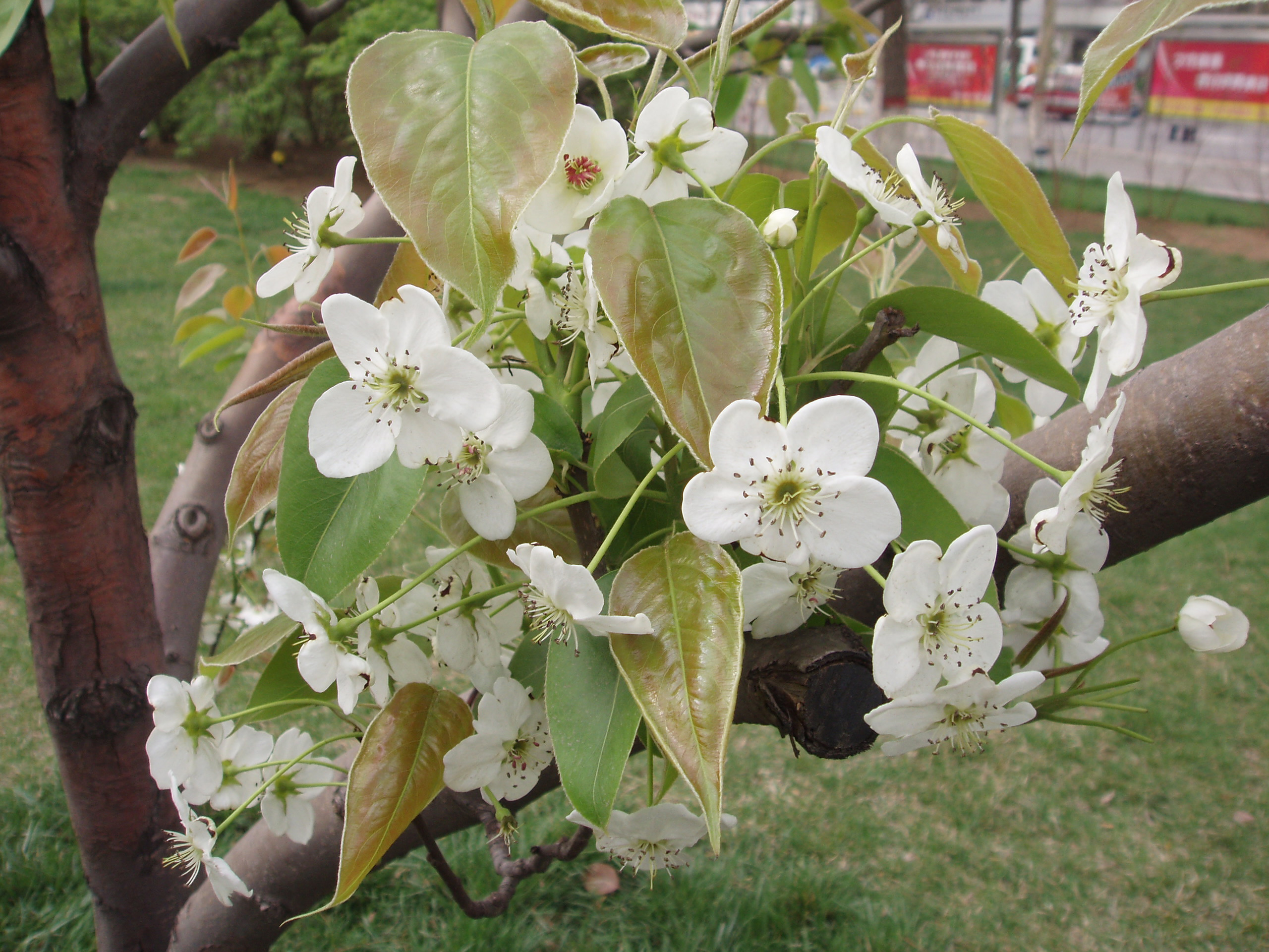 Ya pear flowers